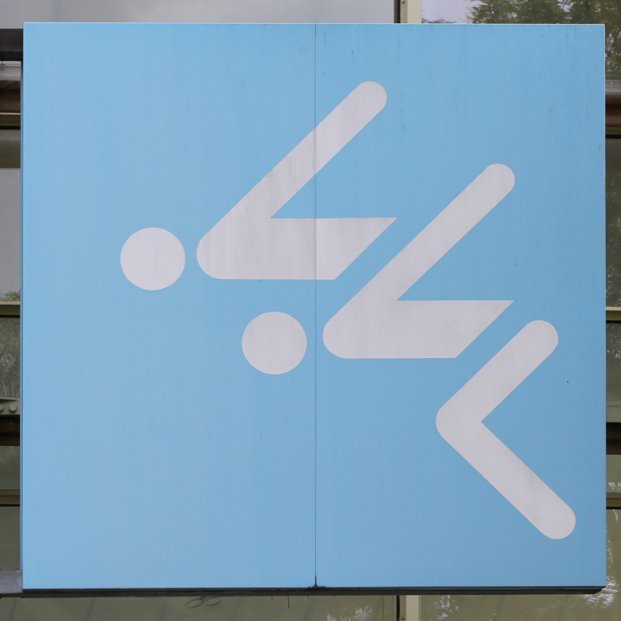 Pictogram of the Olympic Games 1972 in Munich, Germany symbolizing Swimming. Drawn by Otl Aicher, on Display at the Olympic swimming hall